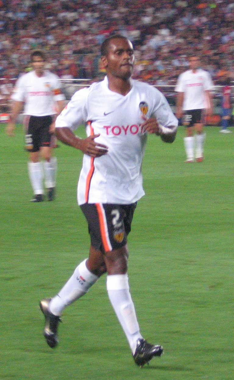 Valencia Club de Fútbol's goalkeeper Miguel during the match FC Barcelona-Valencia CF.